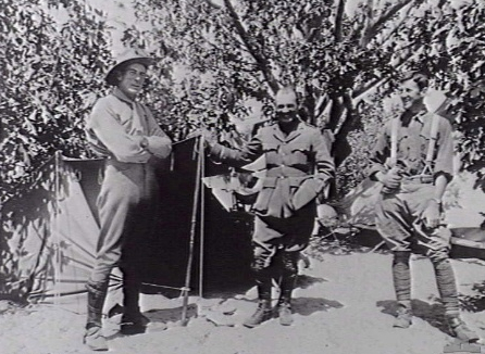 PALESTINE? 1917. LEFT TO RIGHT: LIEUTENANT (LT) LATHAM, LT BANKS, MAJOR WILFRID KENT HUGHES. ; in Palestine with the 3rd Light Horse Brigade.